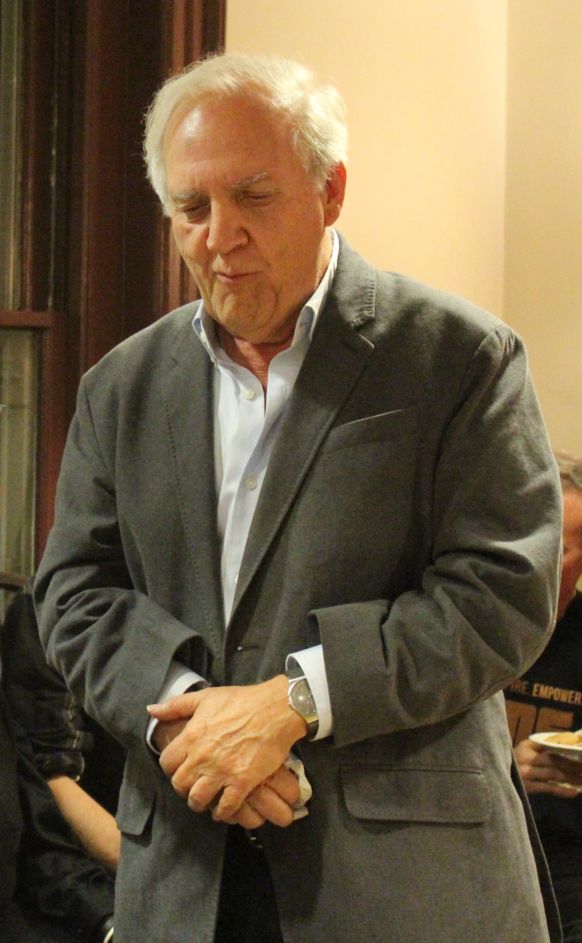 John Szwed, professor and author of books on the history of jazz music, at the Kelly Writers House in Philadelphia.